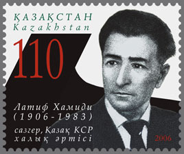 Kazakhstan's stamp, Latyf Khamidi, composer, 2006, 110 tenge.